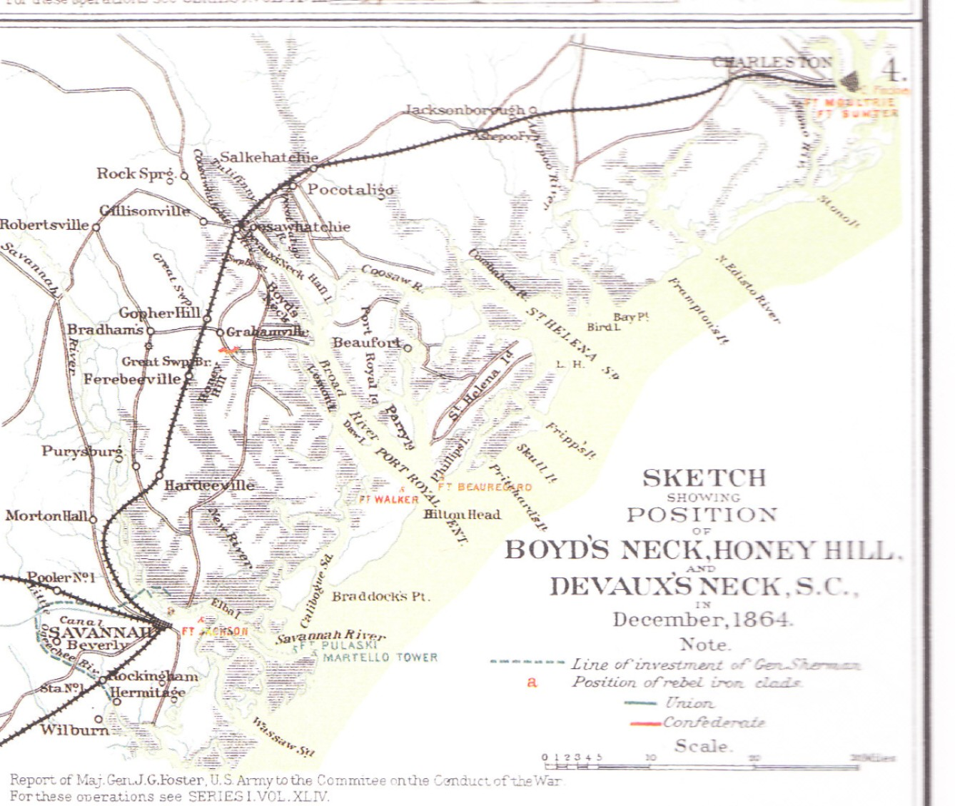 Sketch of the region where the Battle of Honey Hill took place